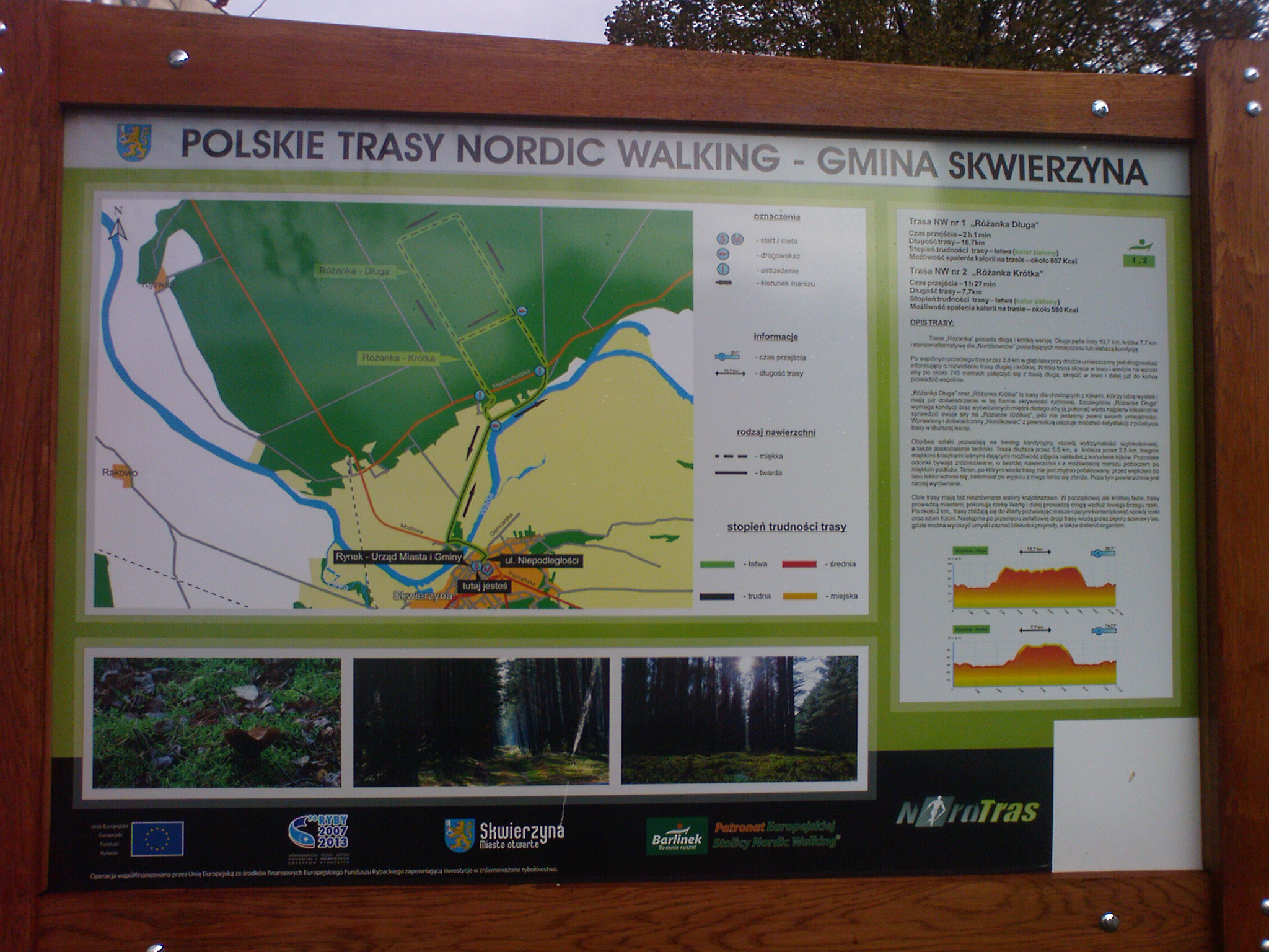 Nordic walking route in Skwierzyna, Lubuskie, Poland